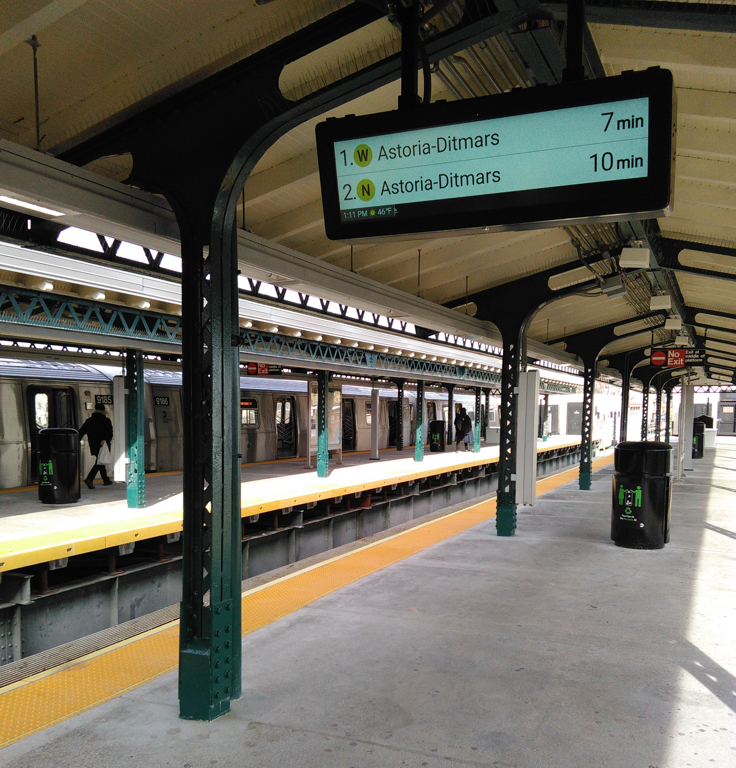 The platforms after the 2019 renovation. The MTA reopened the station on Wednesday, Dec. 18, 2019, after a nine-month closure of the station. During this critical work, the station was closed to service so that crews could demolish the old mezzanine rebuild it to prevent strikes by trucks or other over-height vehicles traveling beneath the elevated station and track structure. With the newly rebuilt mezzanine completely, Astoria Blvd will remain open as work on the other phase of the work continues. This part of the project includes installation of four new elevators and other accessibility features. The full project is expected to be completed in the fall of this year. More information on the Astoria Blvd project is available here